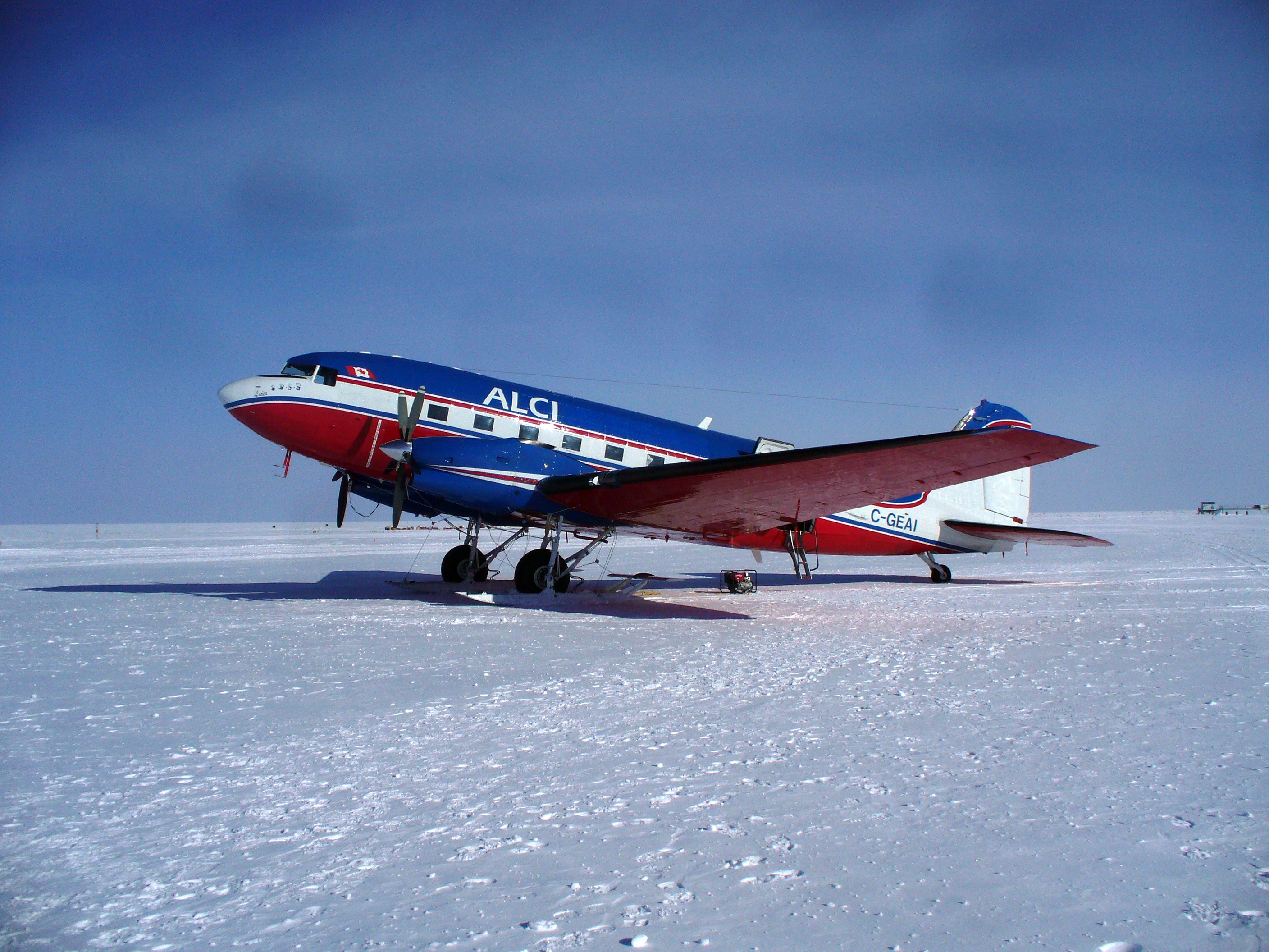 BT-67 Basler owned by the Antarctic Logistics Centre International and user for tourist flights in Antarctica. Amundsen-Scott South Pole Station, December 2009.